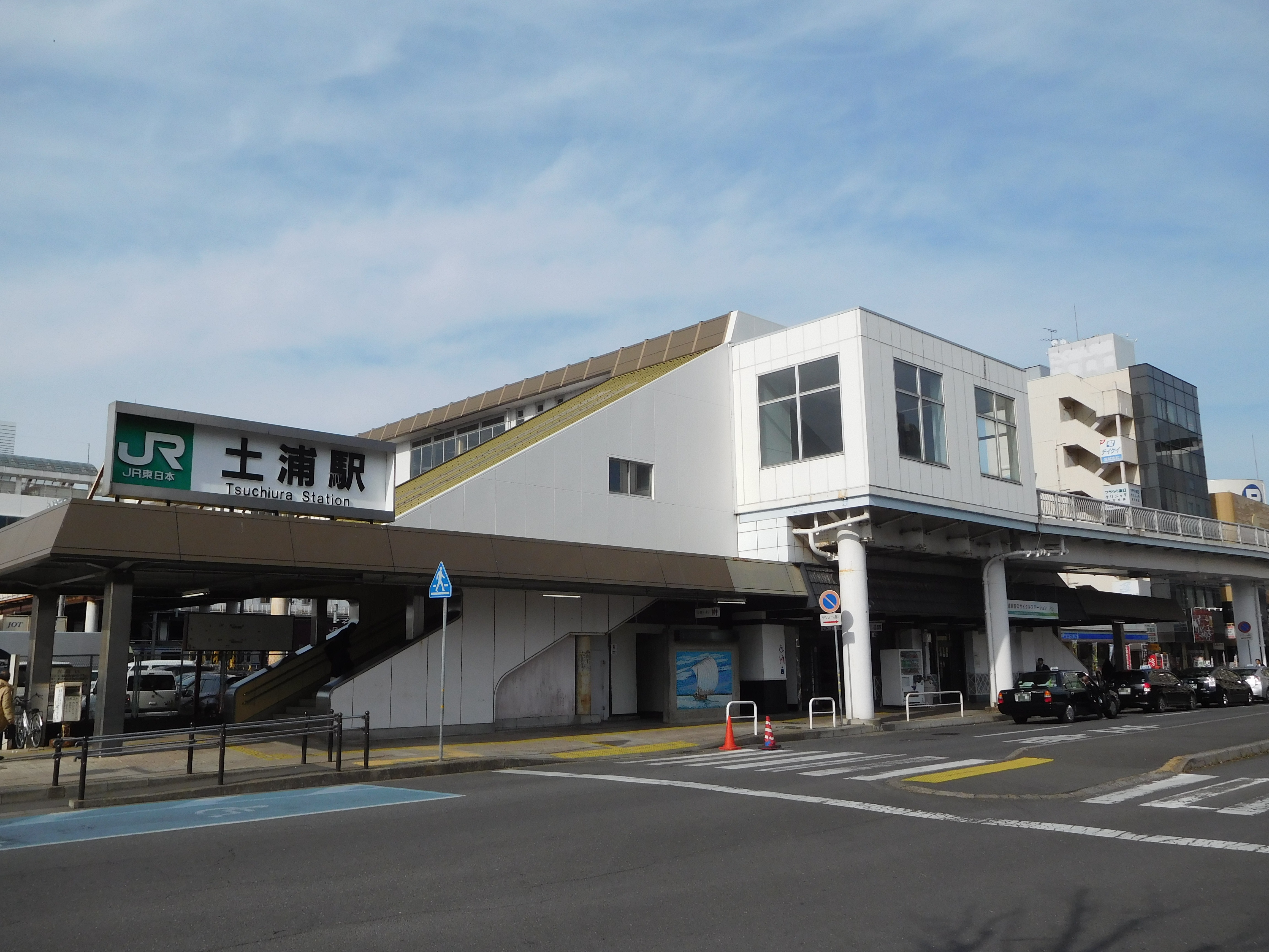 This is JR Tsuchiura station East Exit in Tsuchiura, Ibaraki, Japan.